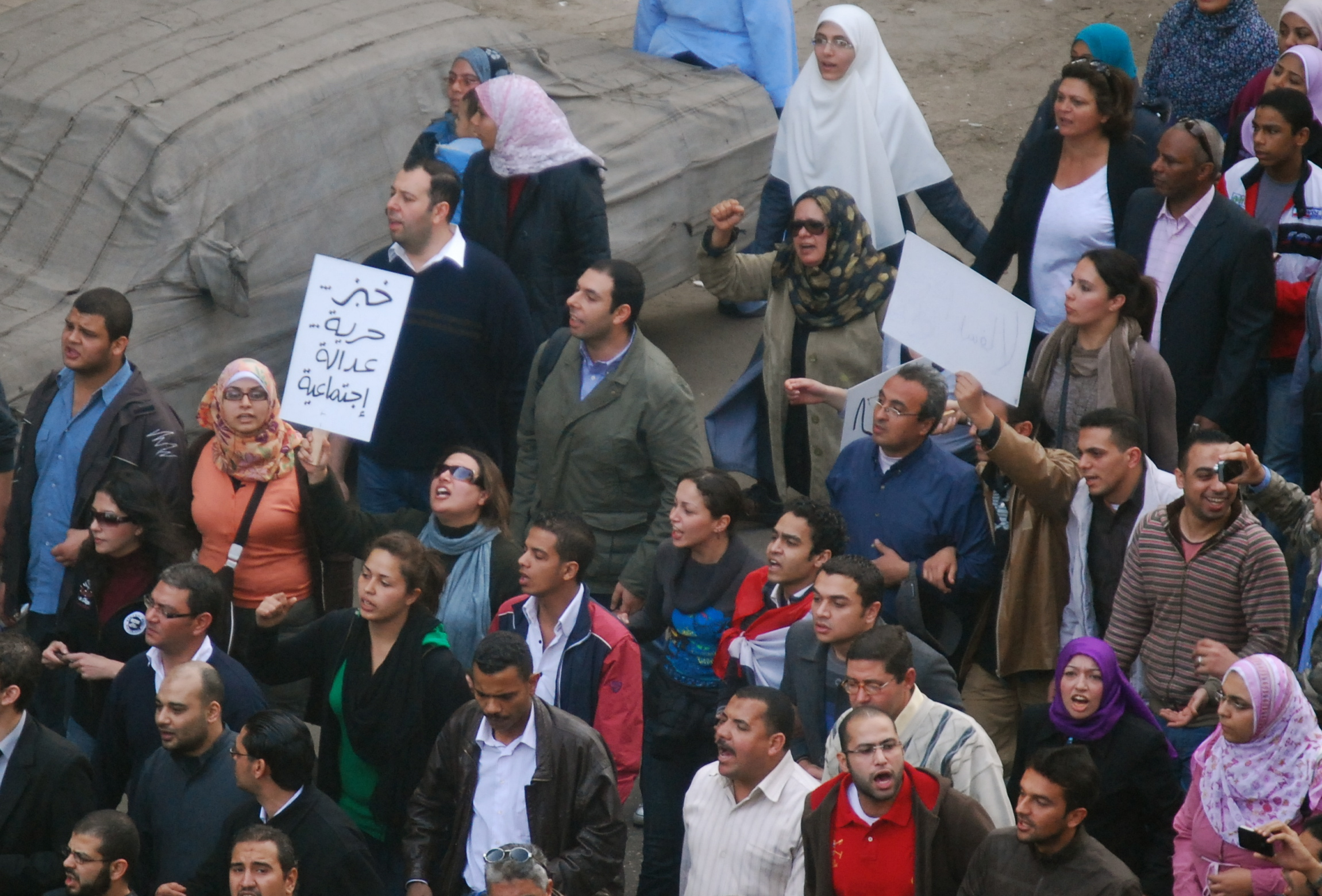 28th of January - "The Day of Anger"